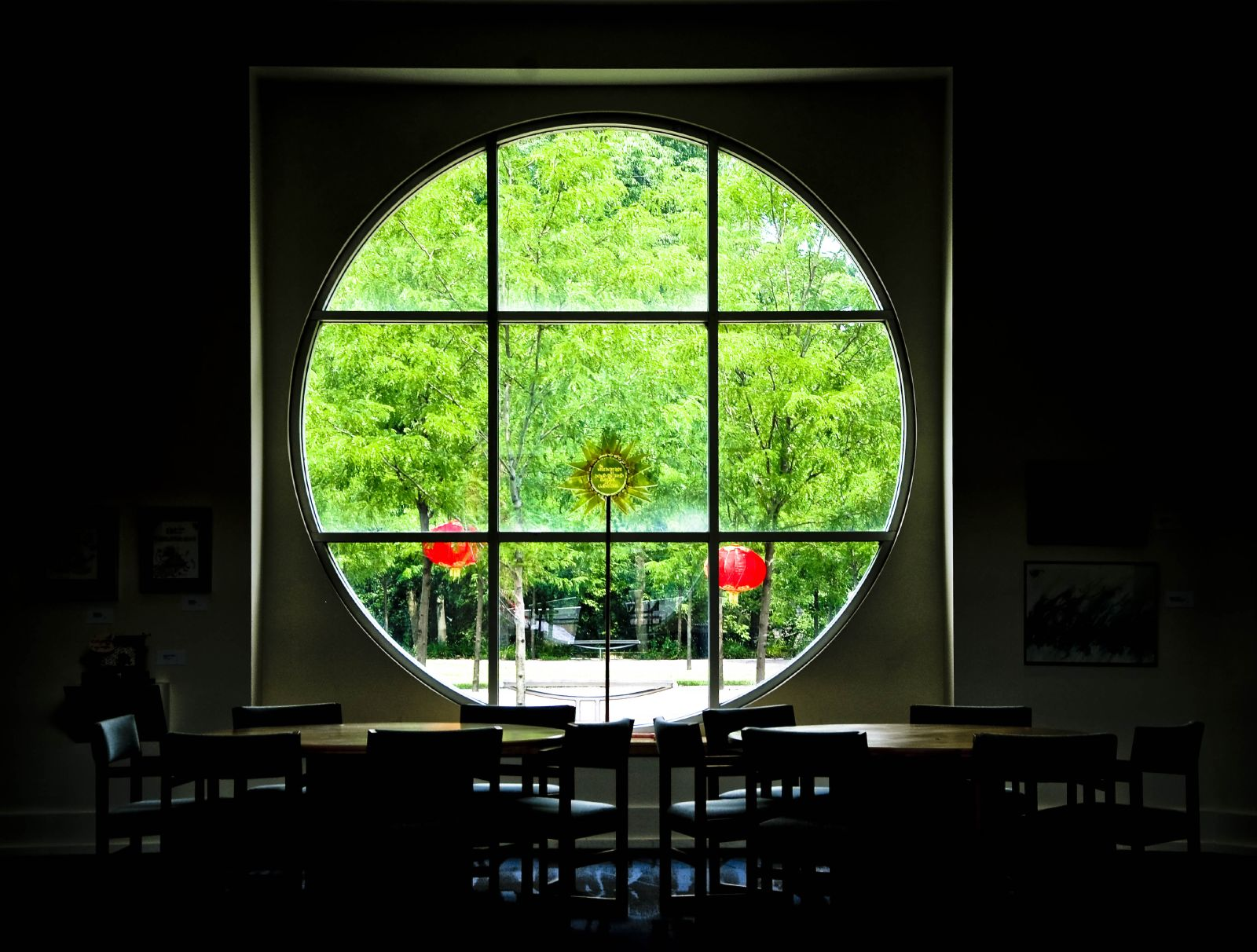 A view out from the Indianapolis Art Center's library